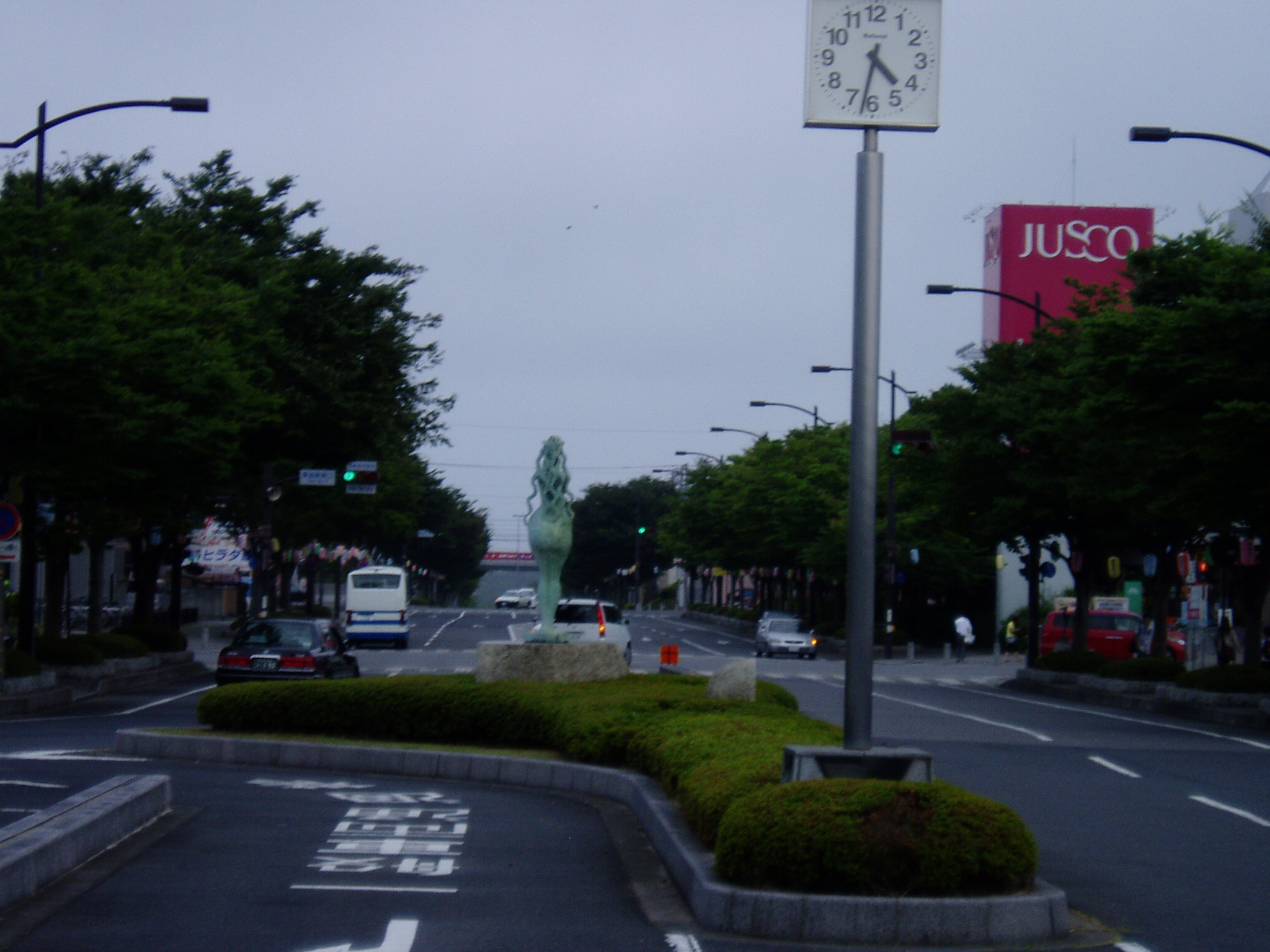 Tokai Station East Exit.